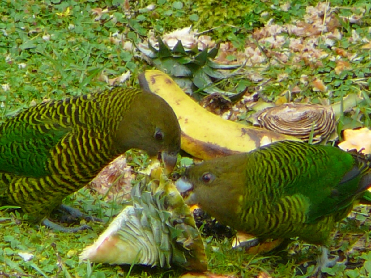 Two Brehm's Tiger Parrots at Kumul Lodge, Mount Hagen, Papua New Guinea. They are eating pineapple. Female on left and juvenile on right.